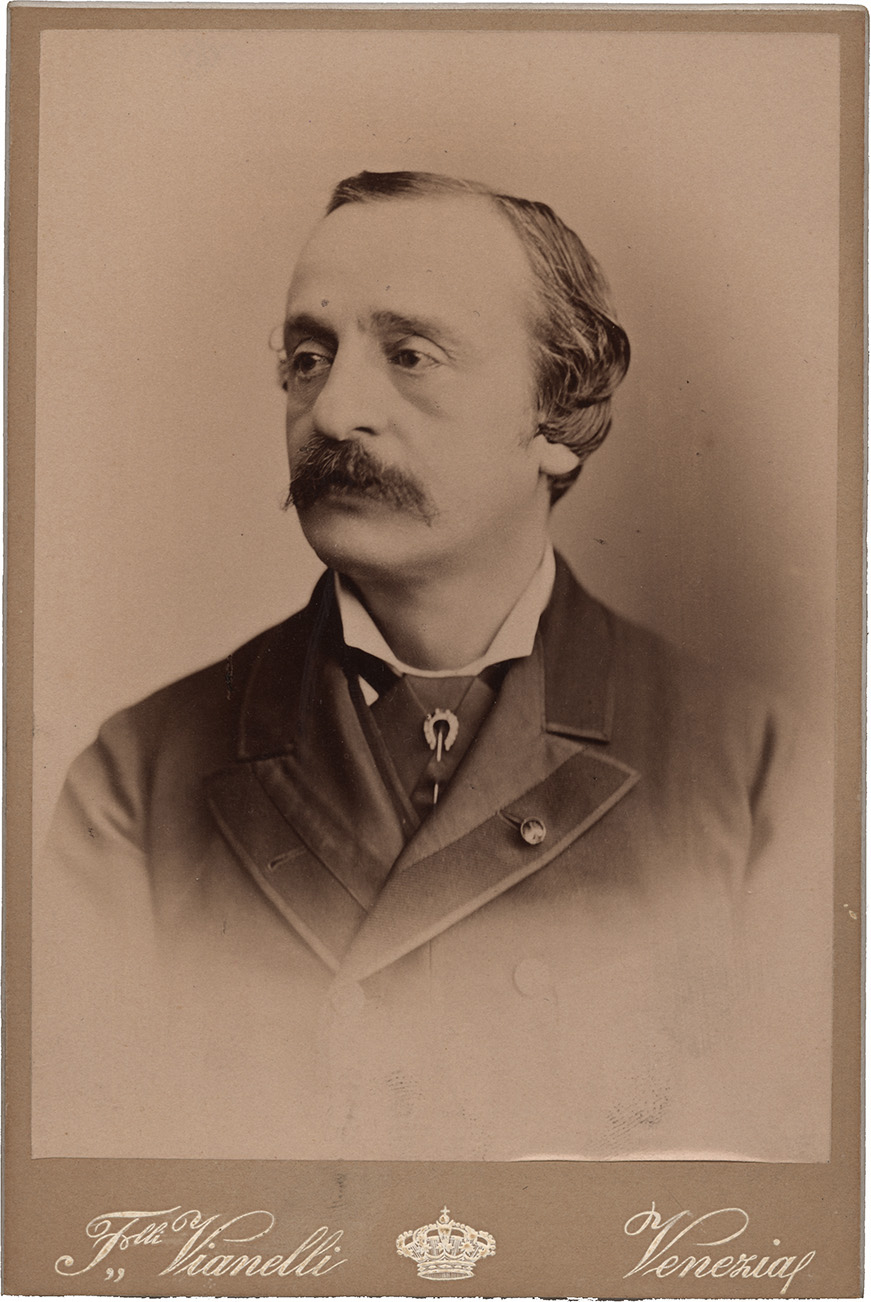 Portrait of Ciro Pinsuti, composer (1829-1888). Photo by Fratelli Vianelli, before 1888.